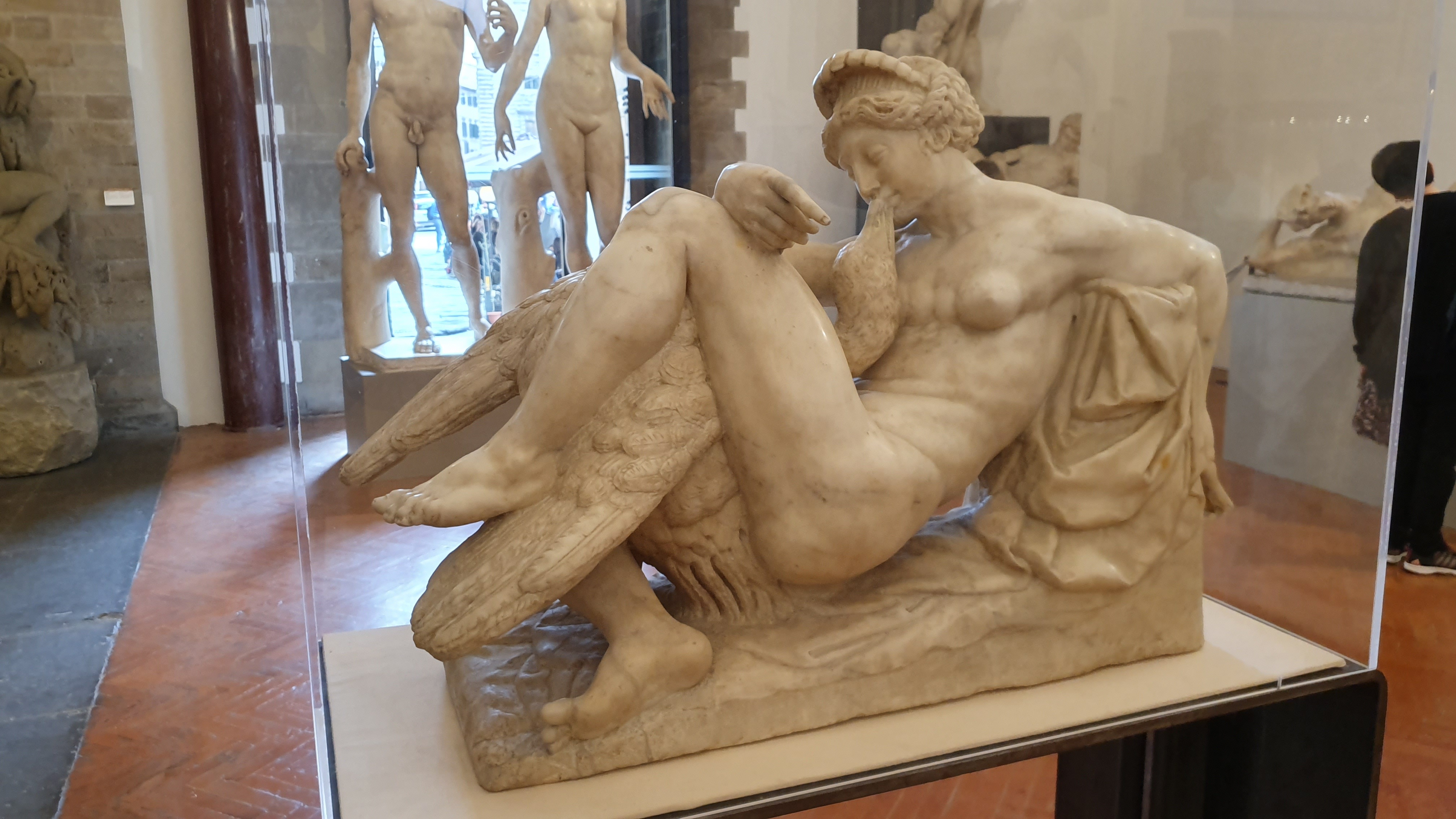 Leda and the Swan by Bartolomeo Ammannati